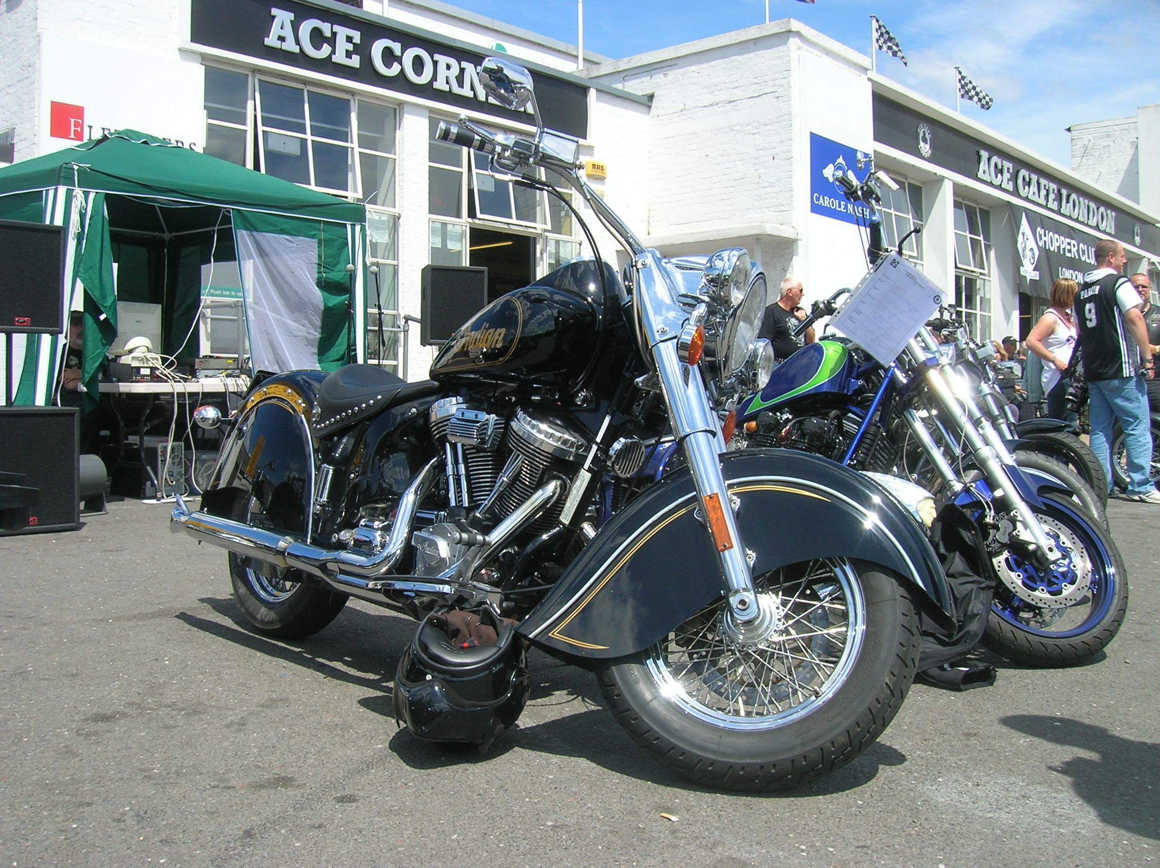 at the Ace Cafe, London, UK 2010